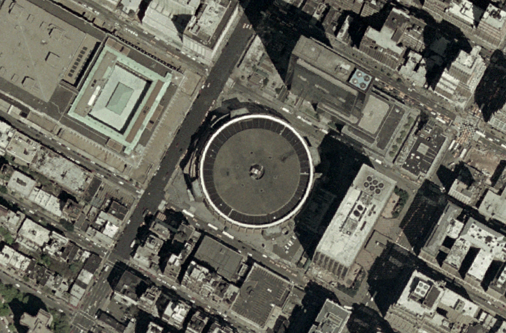 Madison Square Garden satellite view, nasa world wind 1.3.5